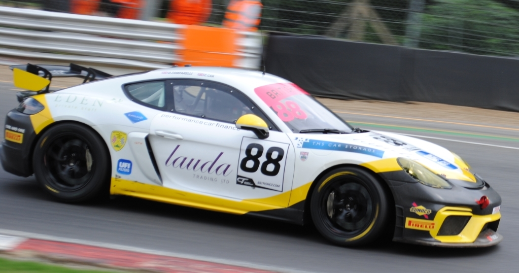 The Porsche Cayman GT4 of Dino Zamparelli and Chris Car.